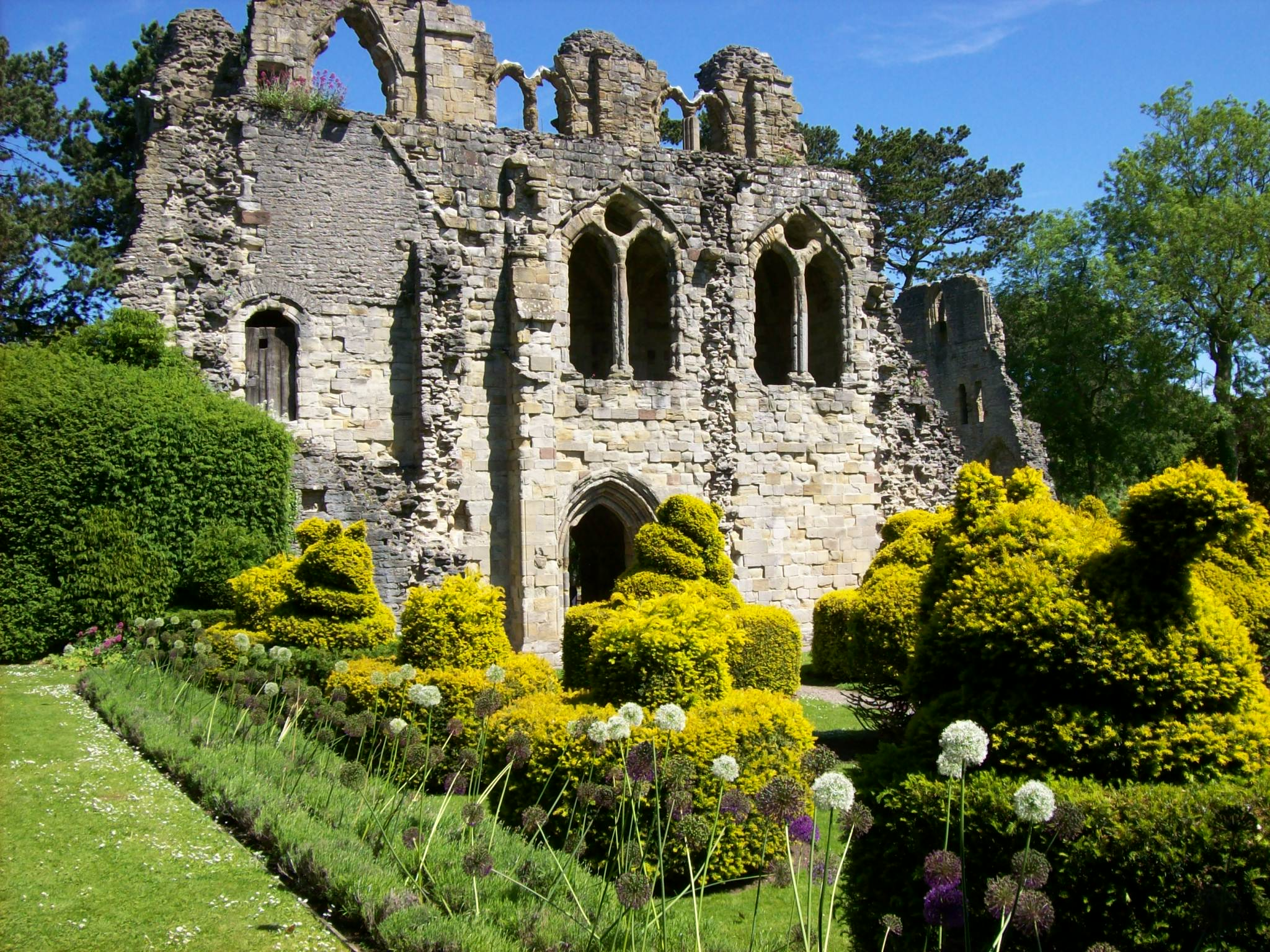 The cloister garden, Wenlock Priory